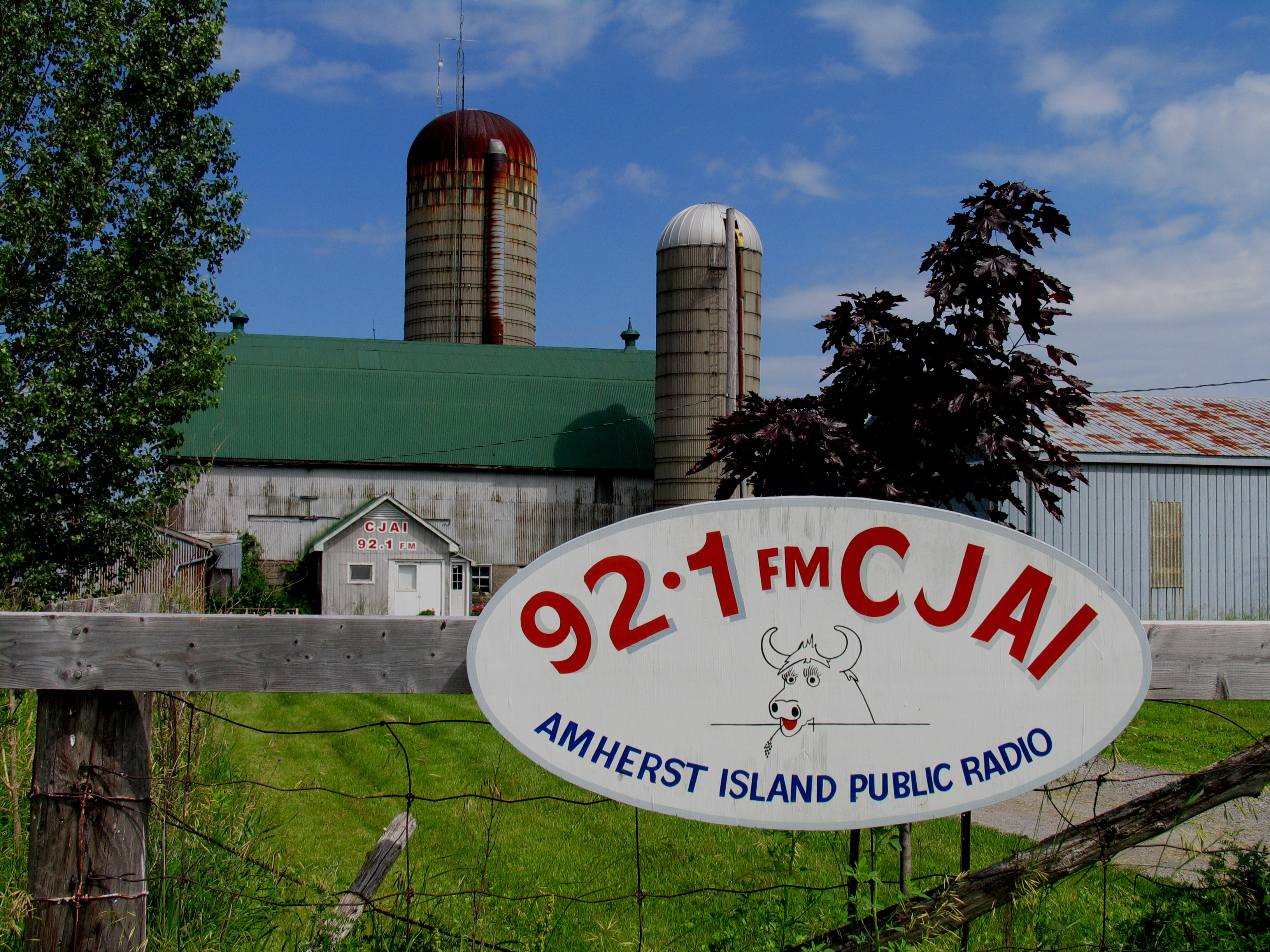 The location of the CJAI 92.1 FM radio station in Stella, Ontario.